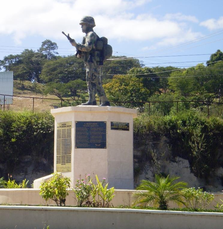 Absent Soldier Monument in Comayagüela at the intersection of Anilli Periférico and Carretera de Lepaterique (Carretera al Batallón) near, the Military Hospital in the capital of Honduras, Tegucigalpa, M.D.C.